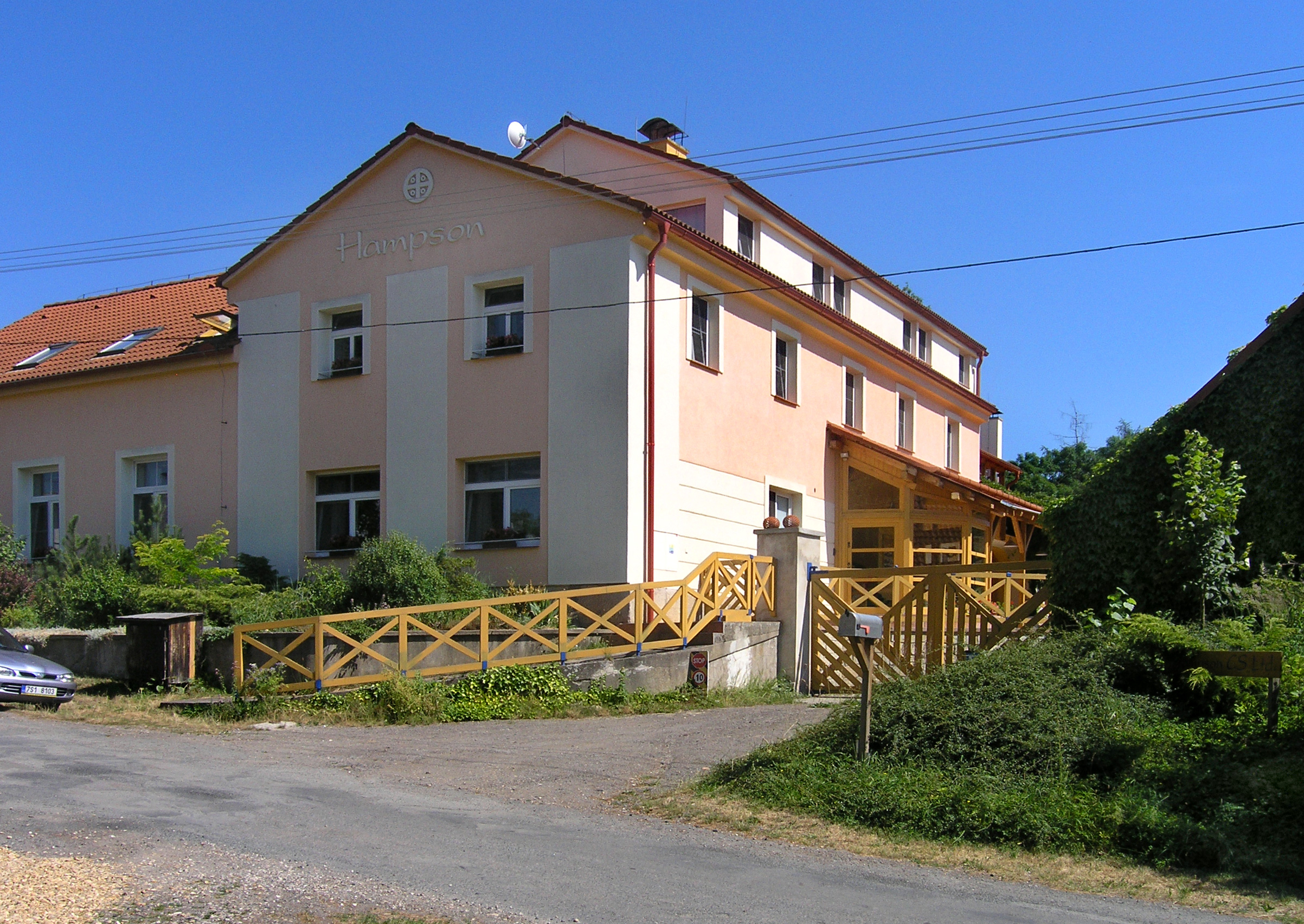 Hampson house in Ptýrov village, Czech Republic